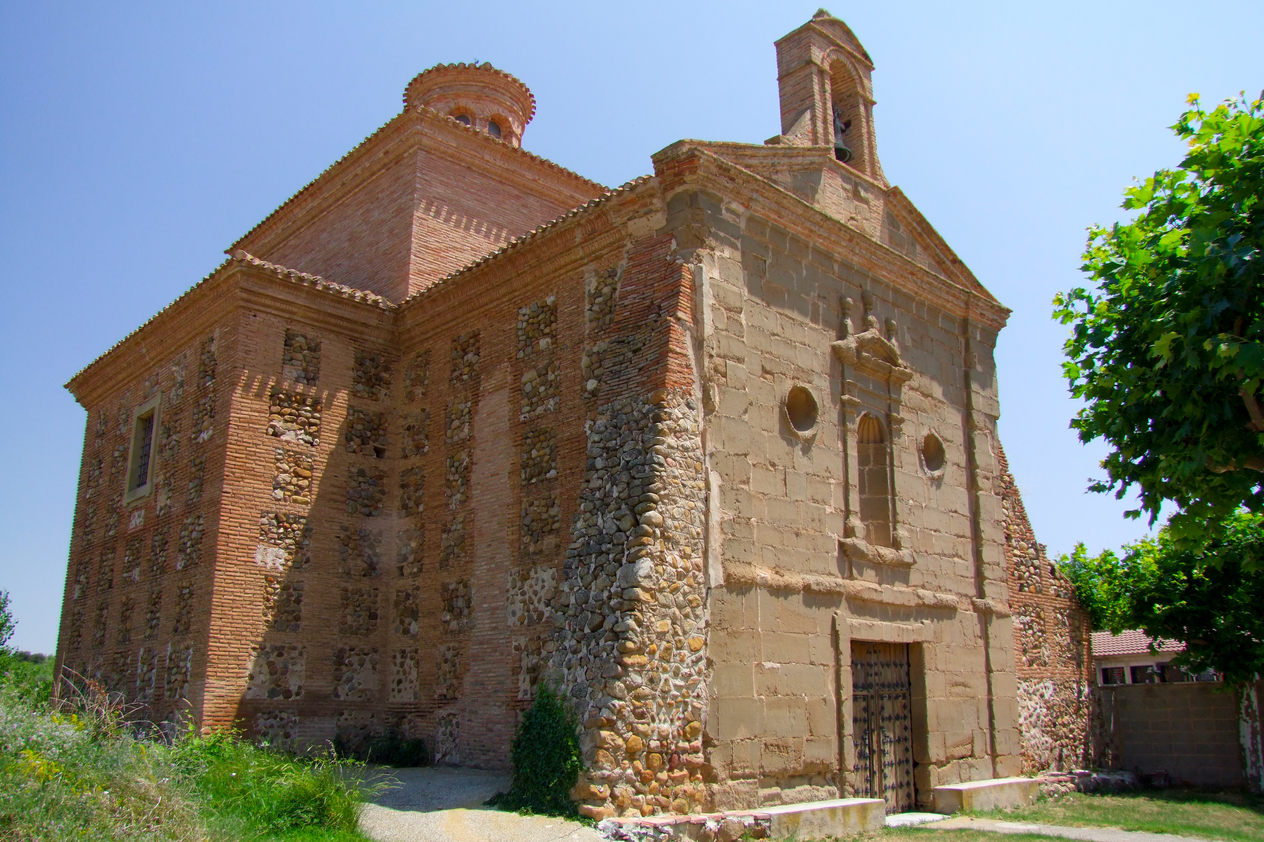 Ermita de los Dolores en la localidad de Bergasa, La Rioja - España